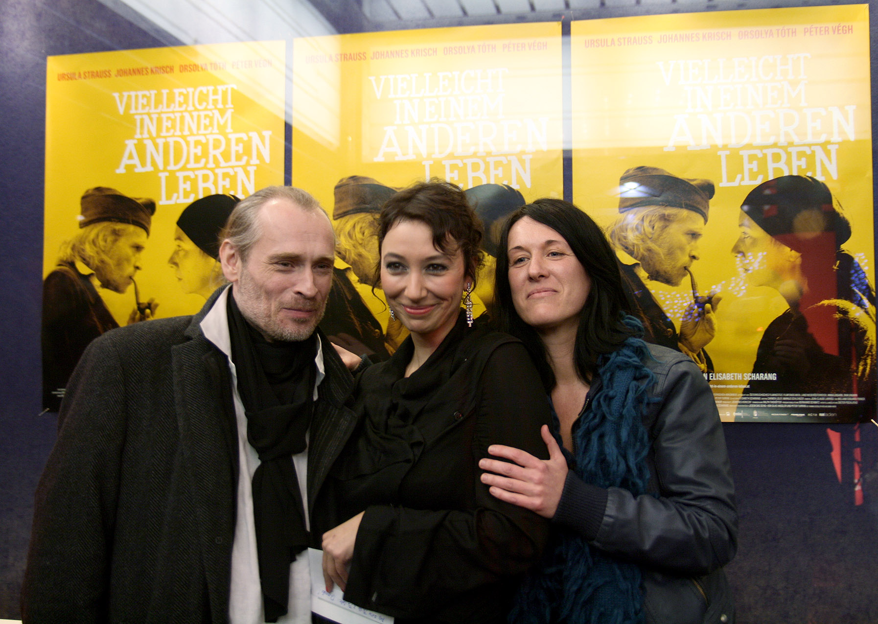 Elisabeth Scharang, Ursula Strauss and Johannes Krisch at the premiere of the movie Vielleicht in einem anderen Leben at the Gartenbaukino in Vienna.